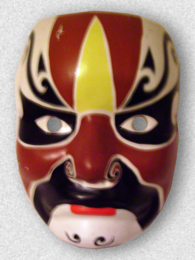 A Beijing opera mask